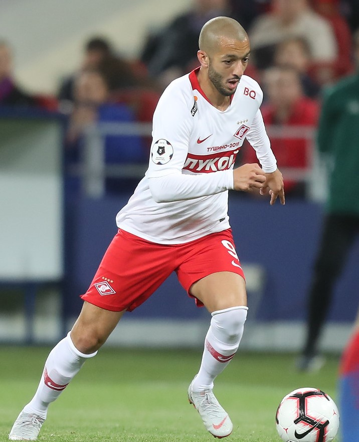 Sofiane Hanni